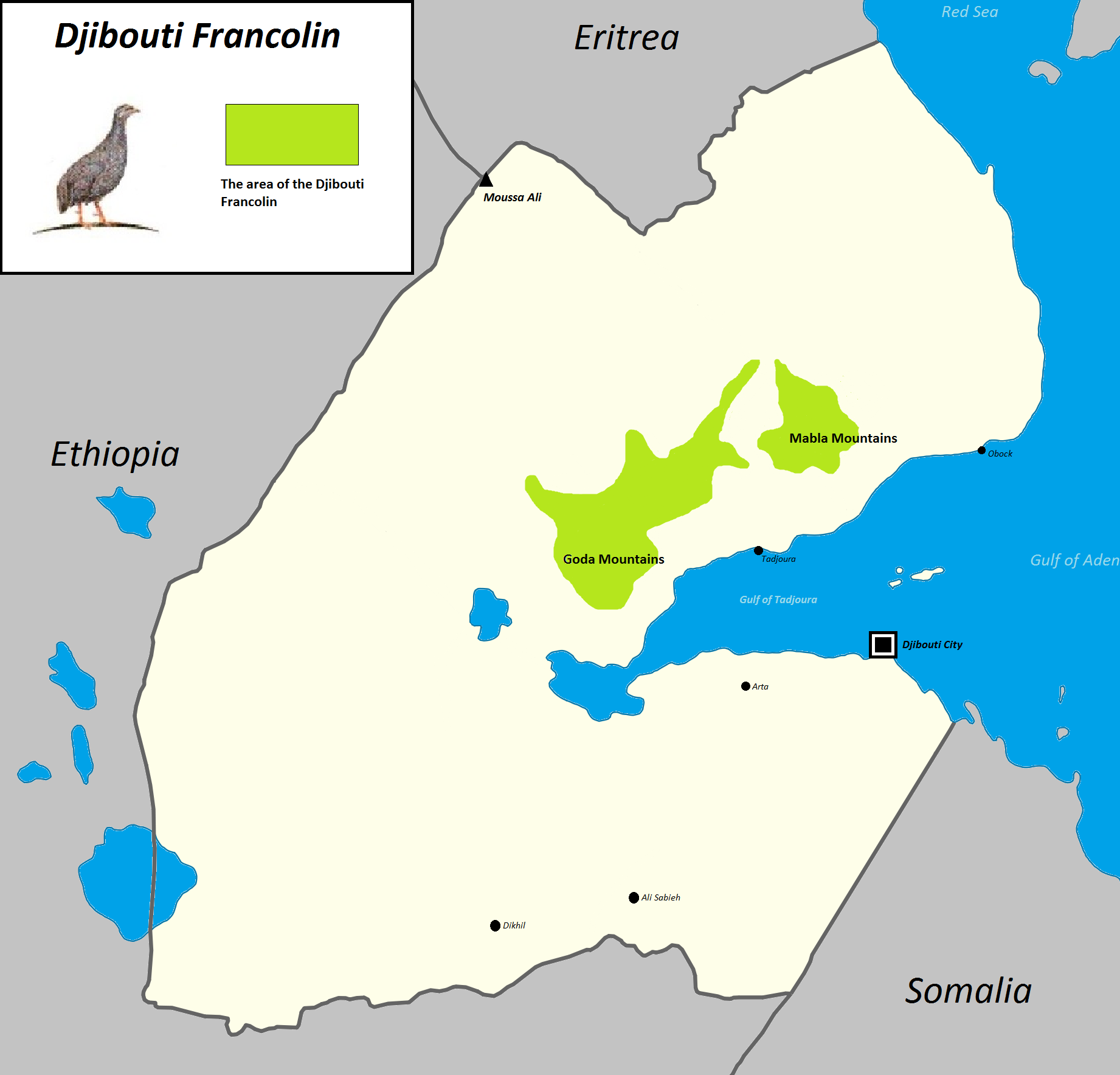 Djibouti Francolin Area